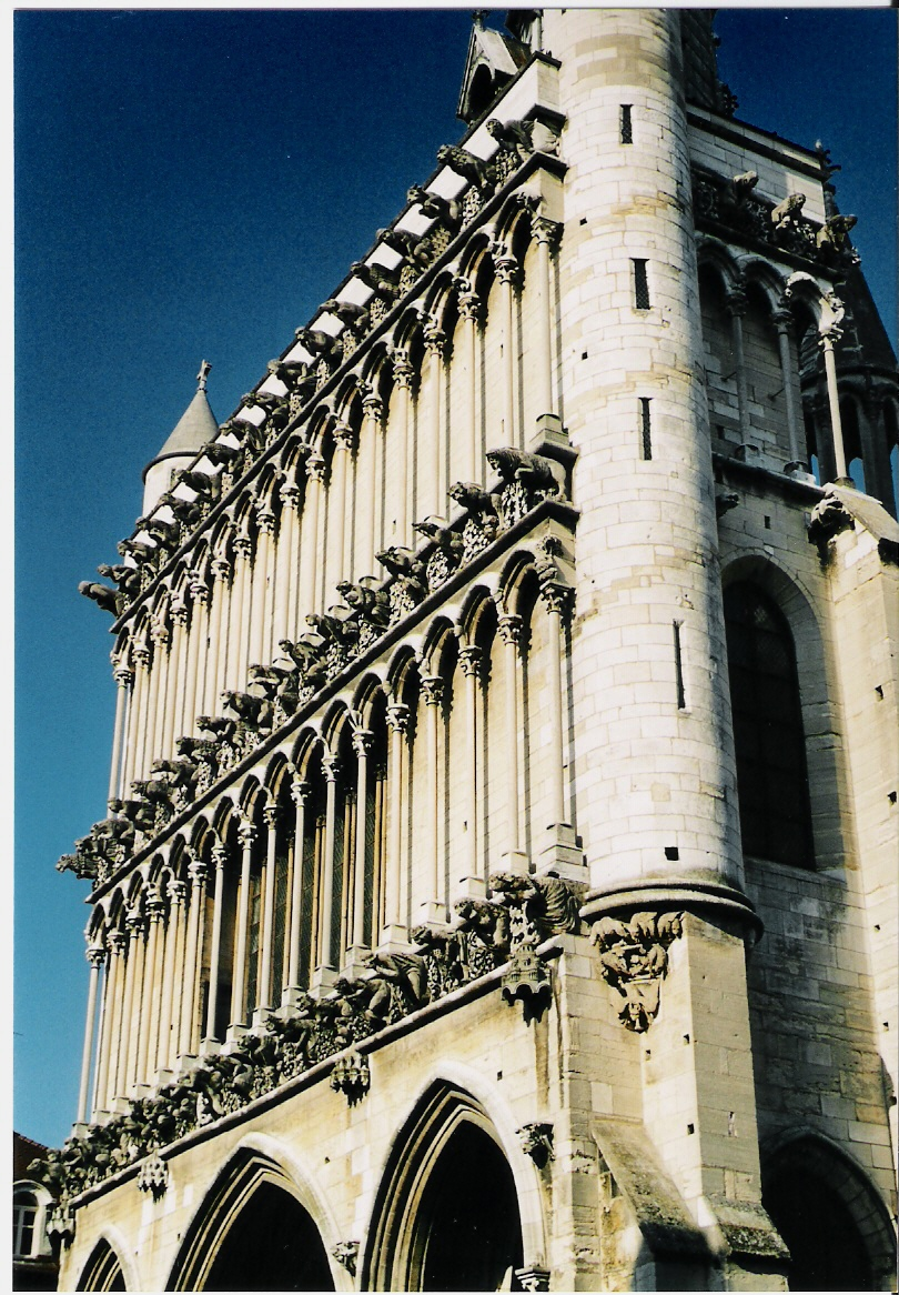 Front of the porch of the church Notre Dame in Dijon, Burgundy, France.